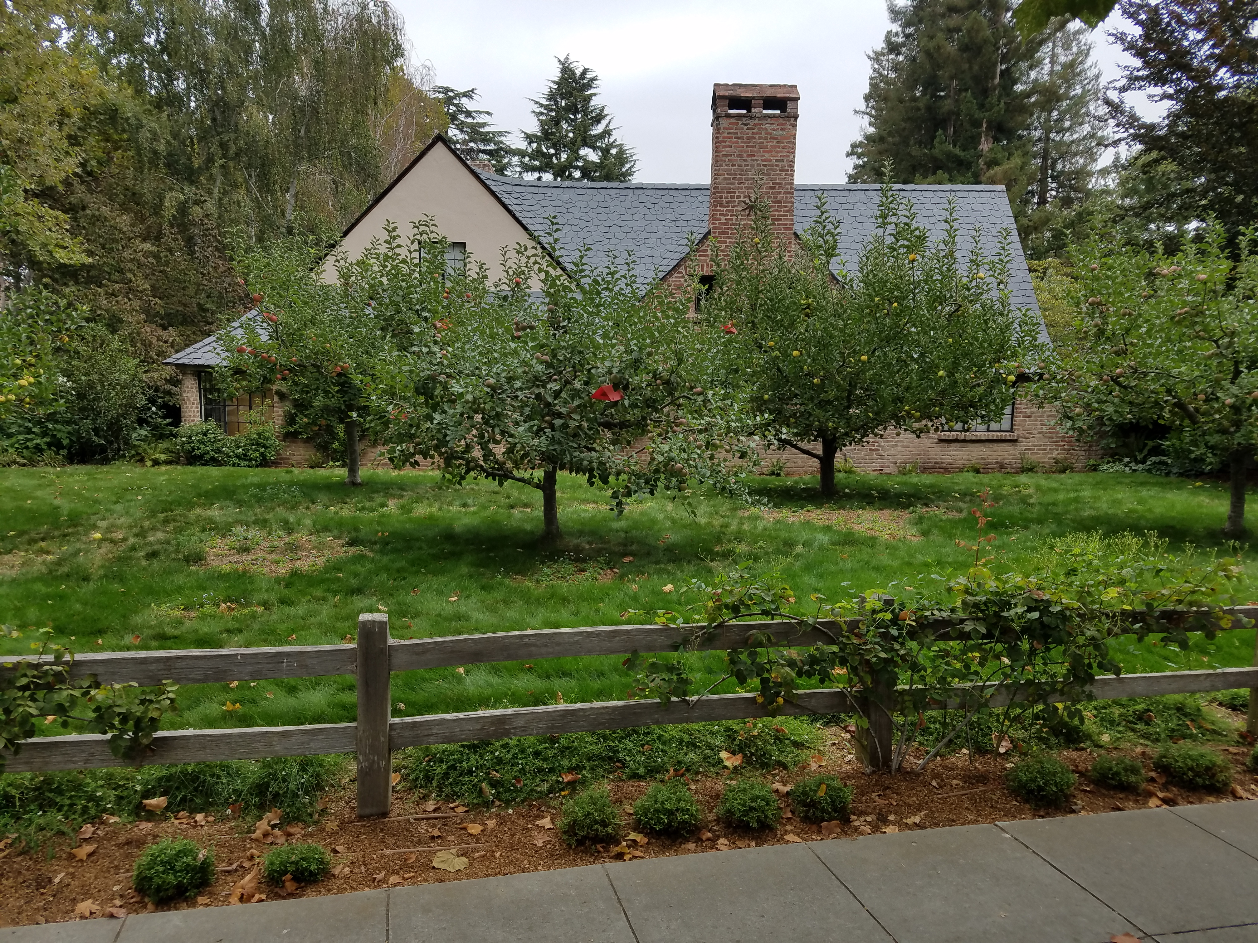 Steve Jobs house in Palo Alto. Abundant fruit trees are visible next to the house.